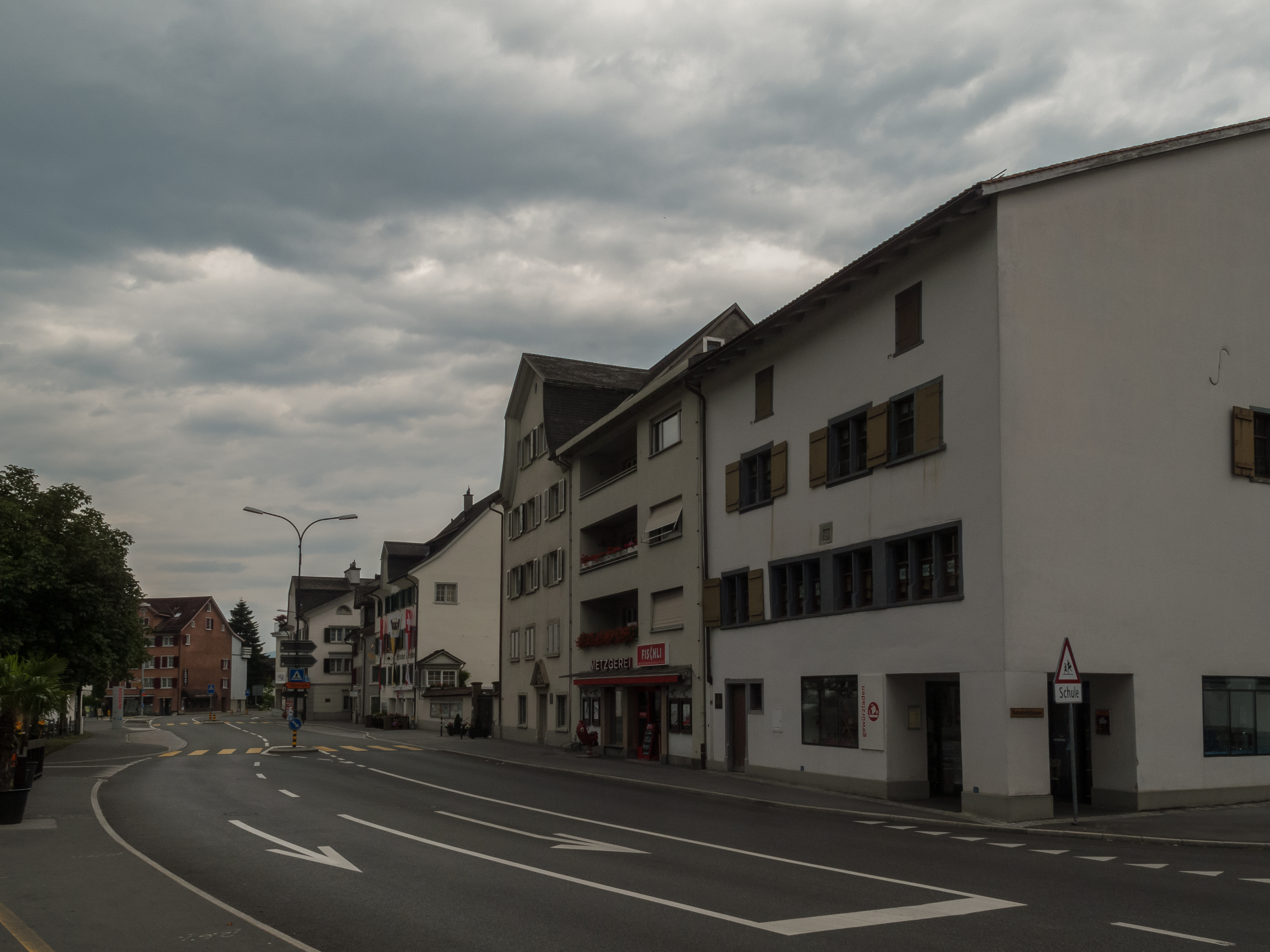 Mollis, view to the street